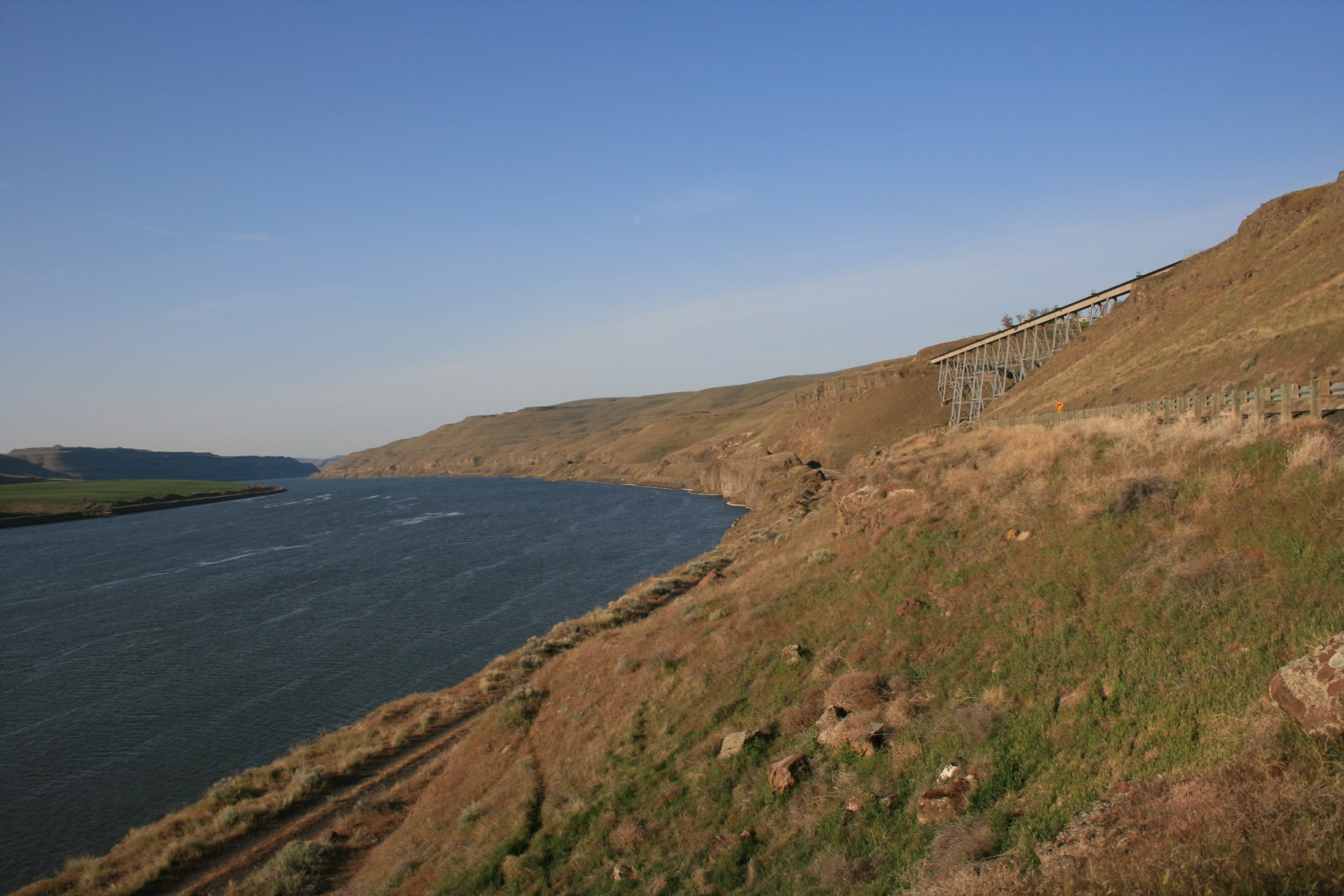 The Snake River — on the Columbia Plateau in Washington (state). To the upper right is a trestle on the Columbia Plateau Trail. For use with both articles.